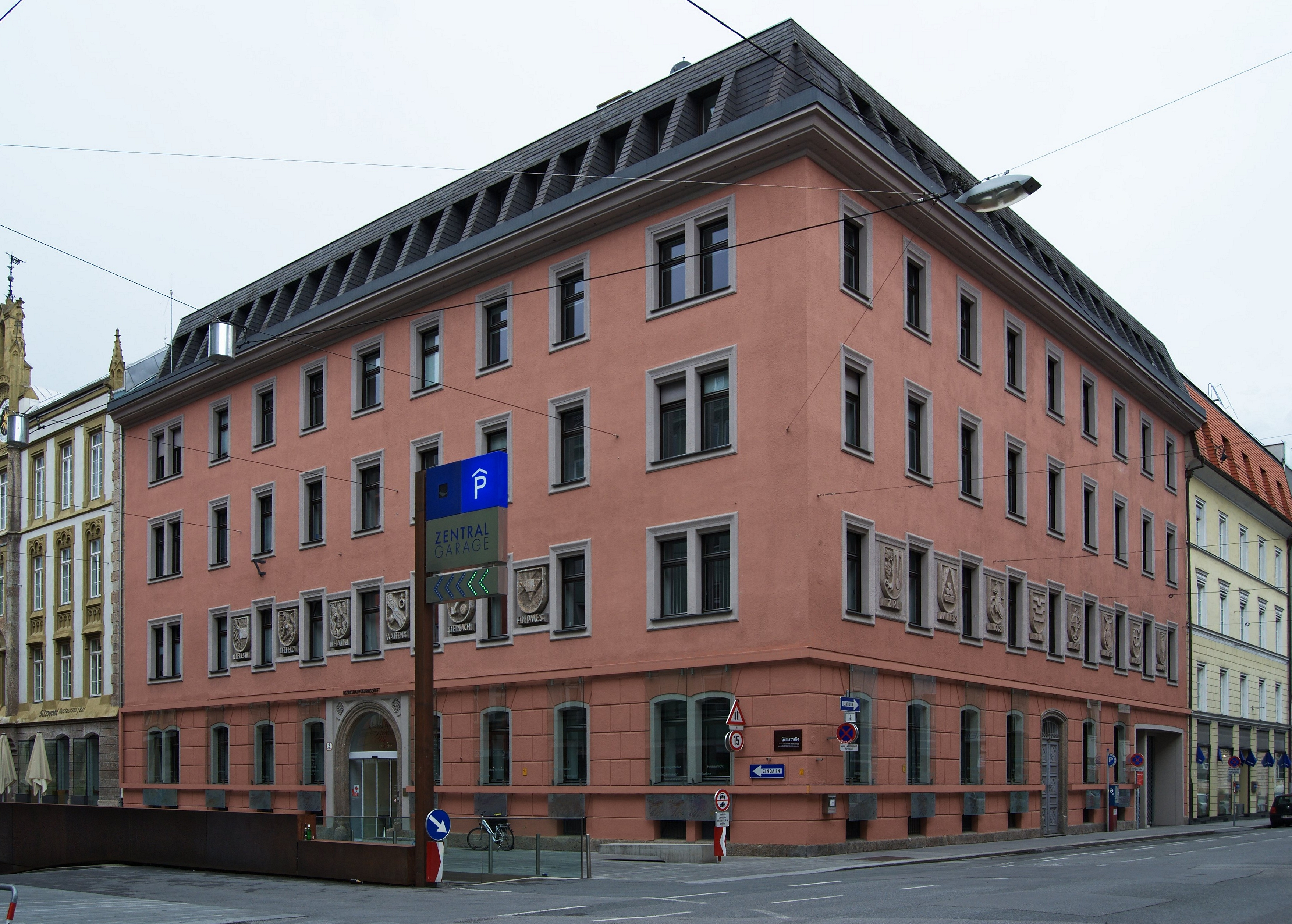 administrative office of district Innsbruck-Land